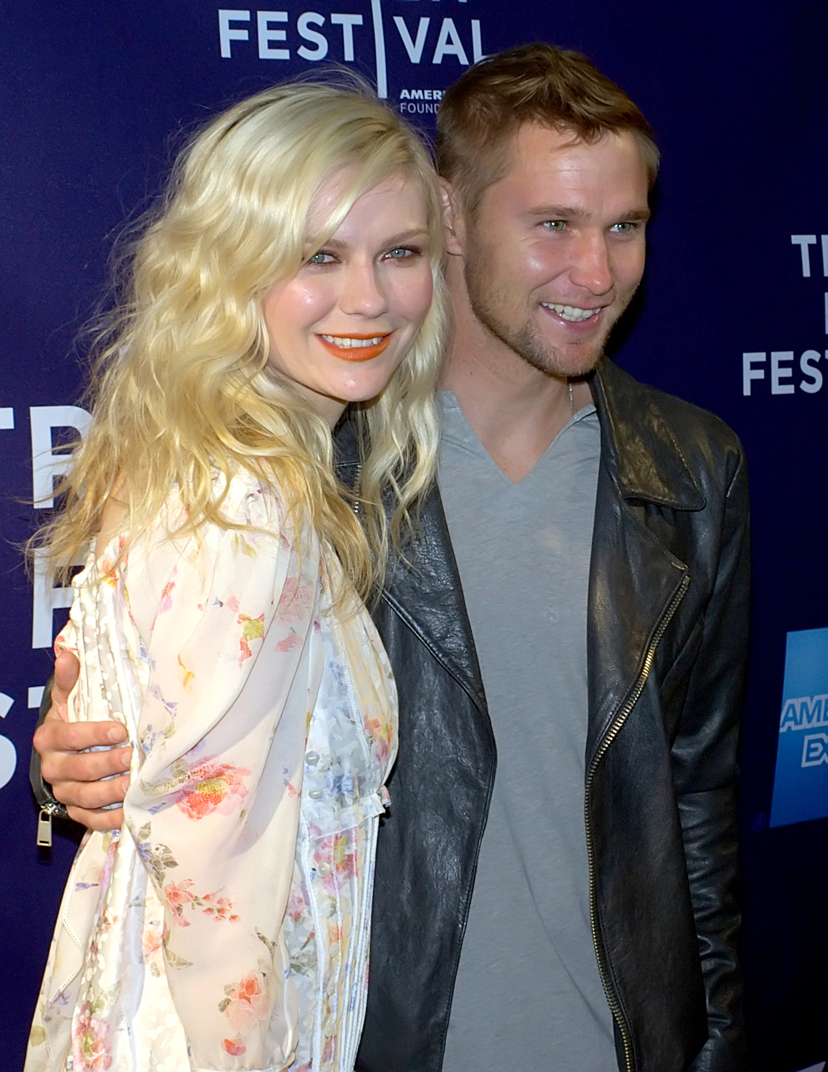 Kirsten Dunst and Brian Geraghty at the 2010 Tribeca Film Festival premiere of Bastard.